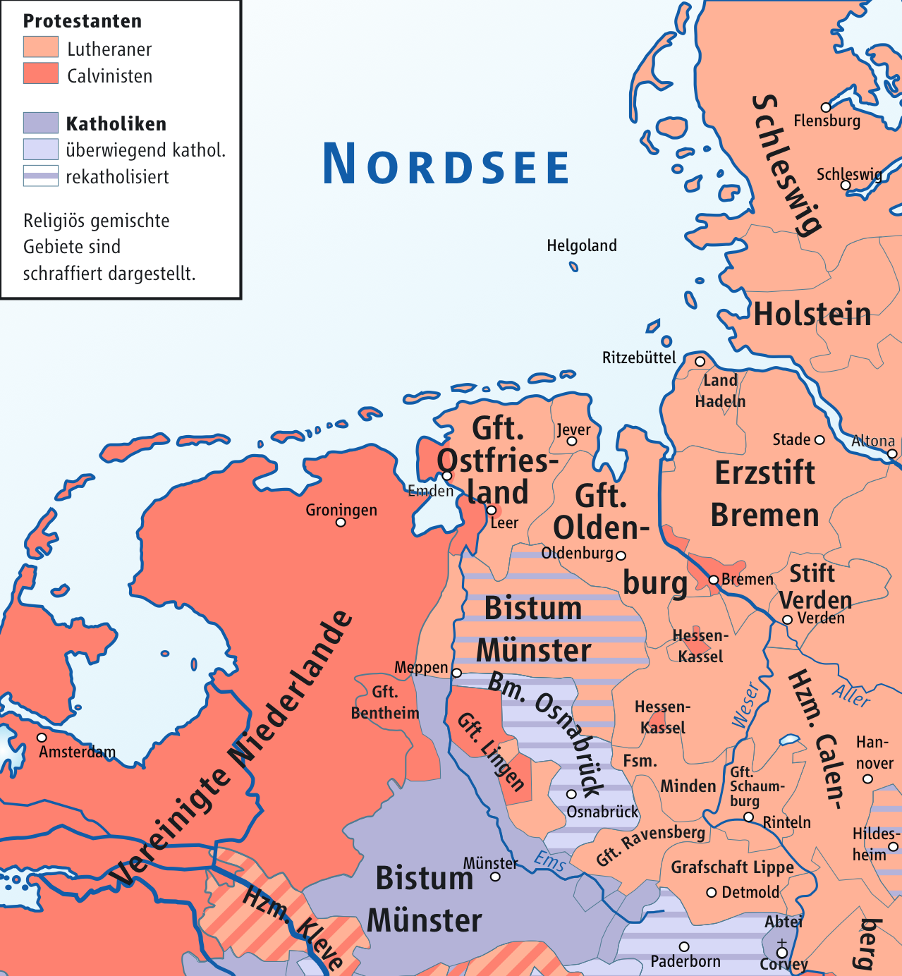 Map of the religous situation in East Frisia, 1618